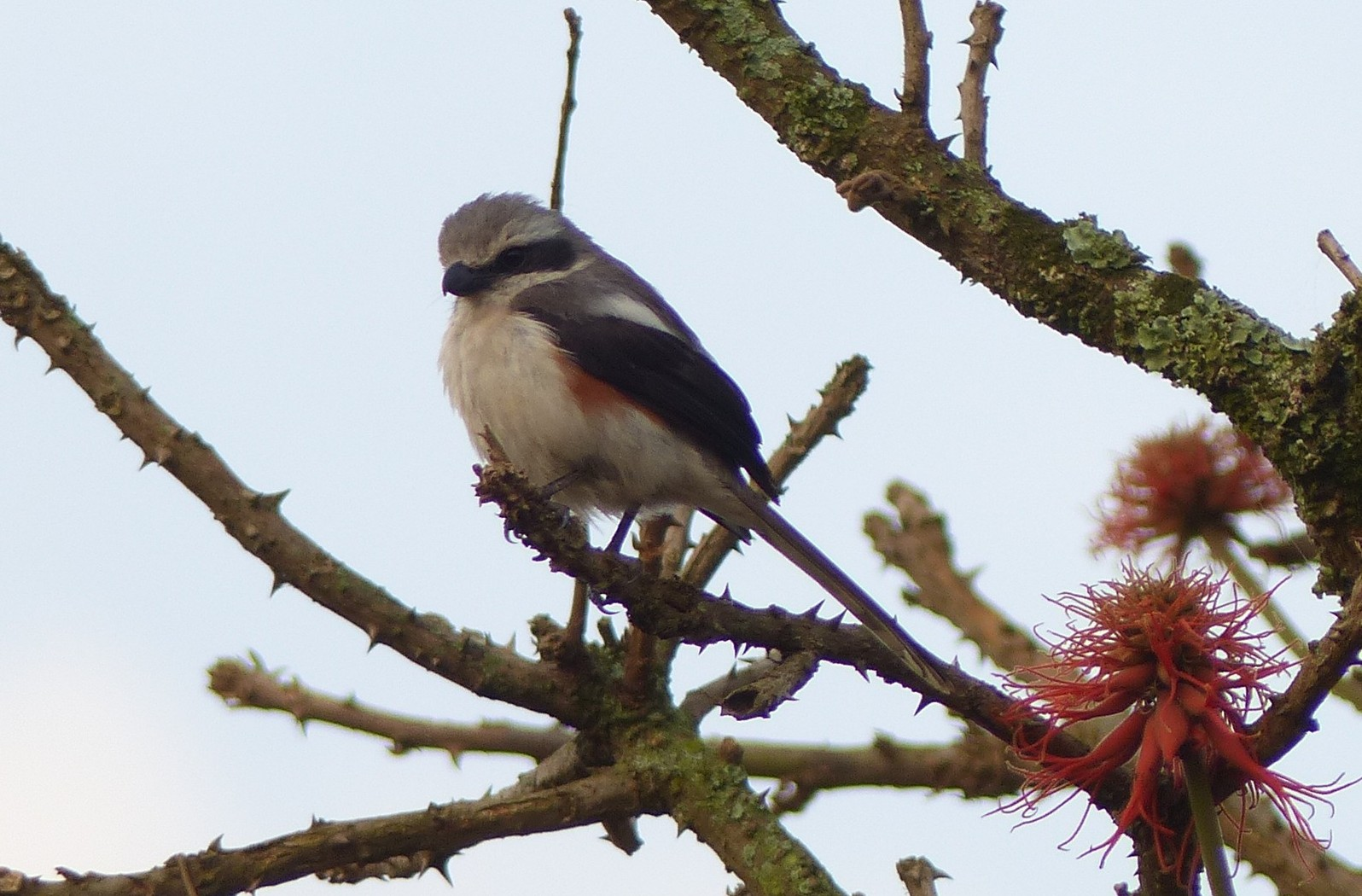 Mackinnon's Fiscal, female